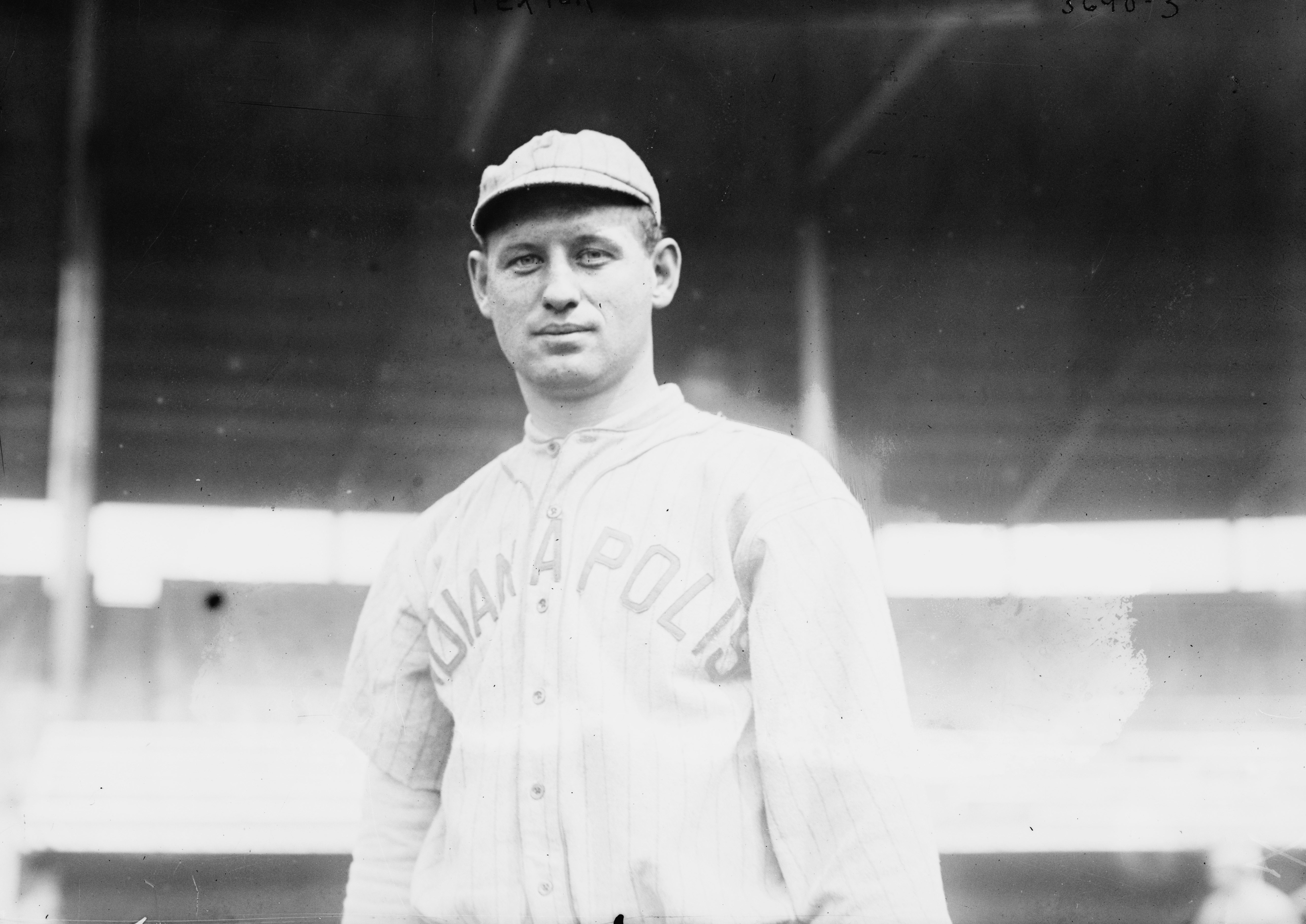 Title: George Textor, Indianapolis Federal League (baseball) Abstract/medium: 1 negative : glass ; 5 x 7 in. or smaller.